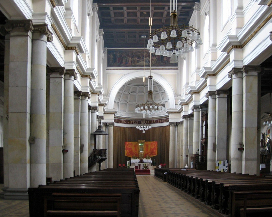 God Saviour Cathedral in Ostrava, the Czech Republic, architect: Gustav Meretta (1832-1888)